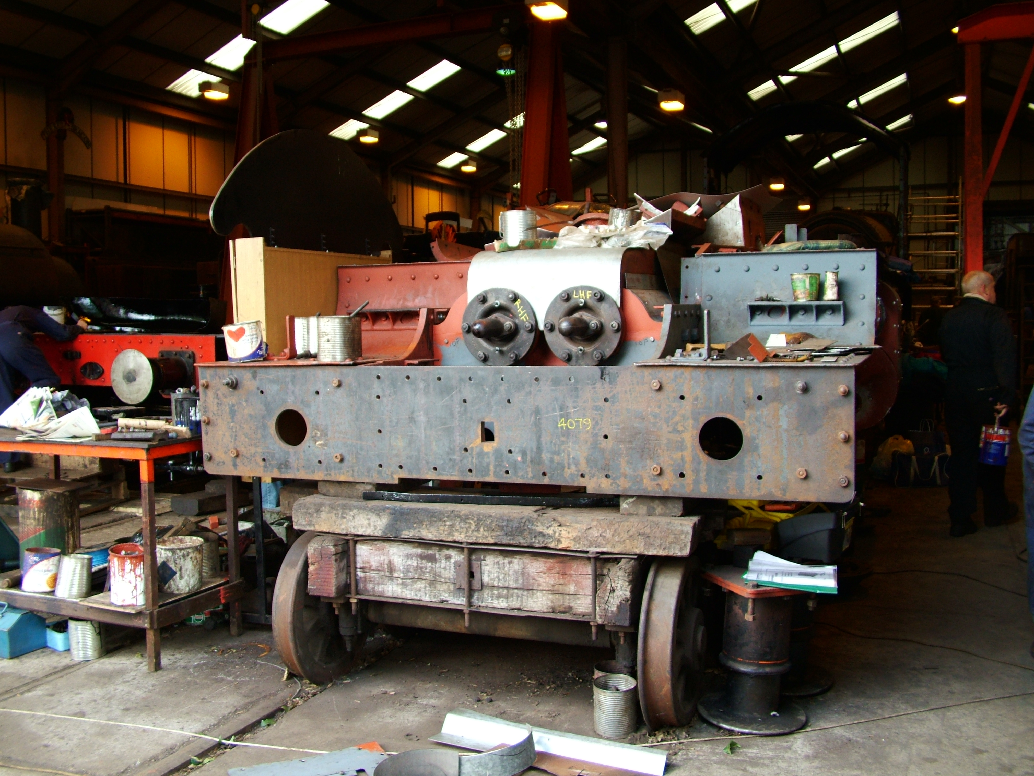 GWR 4079 Pendennis Castle undergoing restoration at Didcot